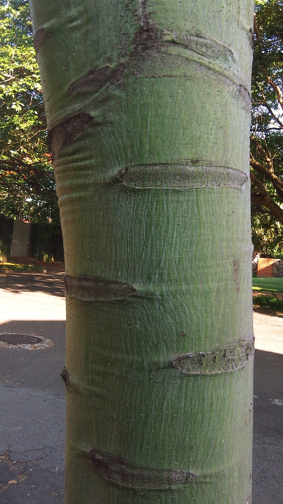 Bark on trunk of a guapuruvu tree (Schizolobium parahyba) about 8 years old, about 1.5 m above ground, showing leaf-stalk scars. The trunk is about 20 cm wide. Photo taken in Campinas, SP, Brazil by J.Stolfi on 2012-03-08 with a Kodak Playsport Zx5, reduced and color-corrected with Gimp.